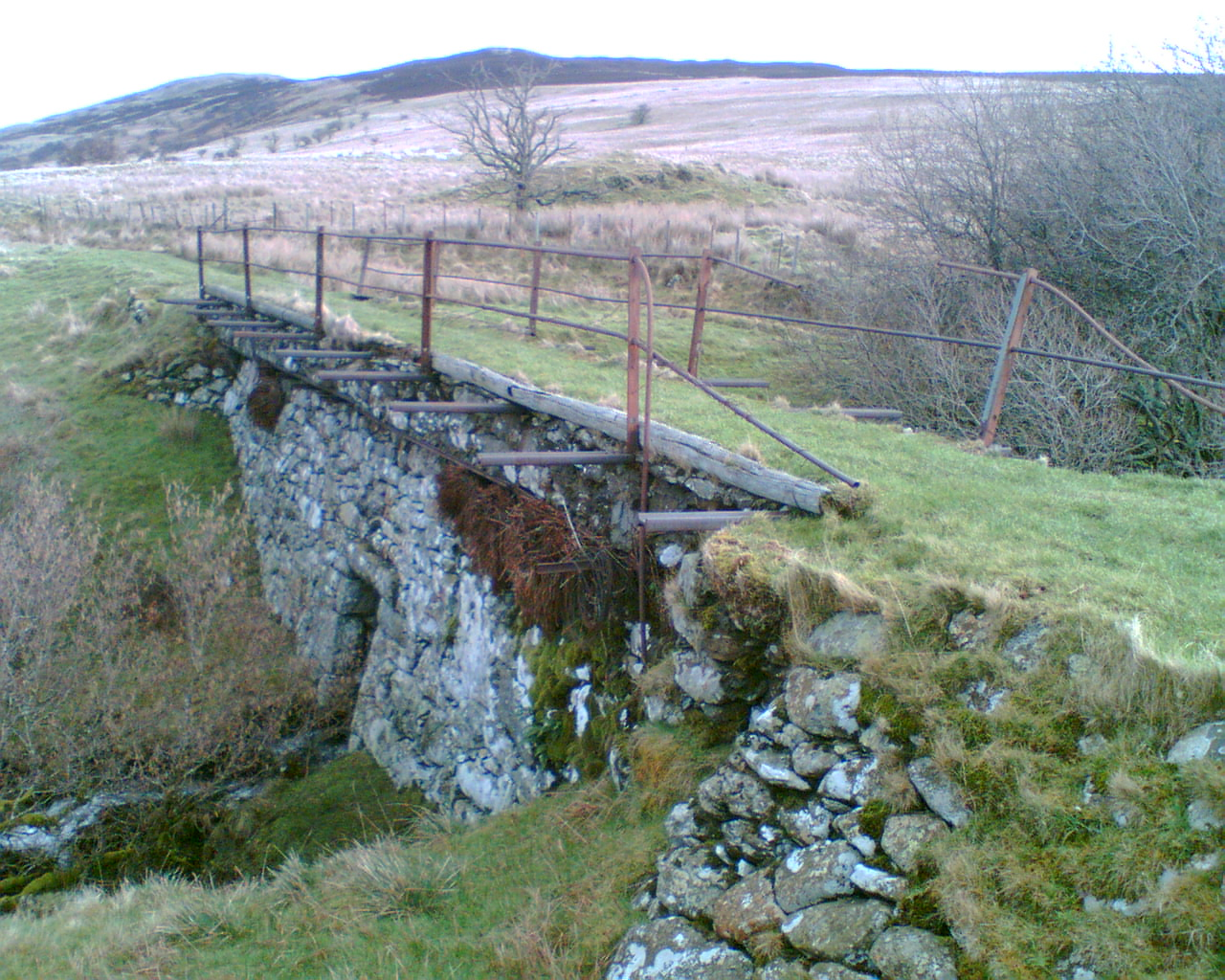 Photo of an old bridge on the Eigiau Tramway.